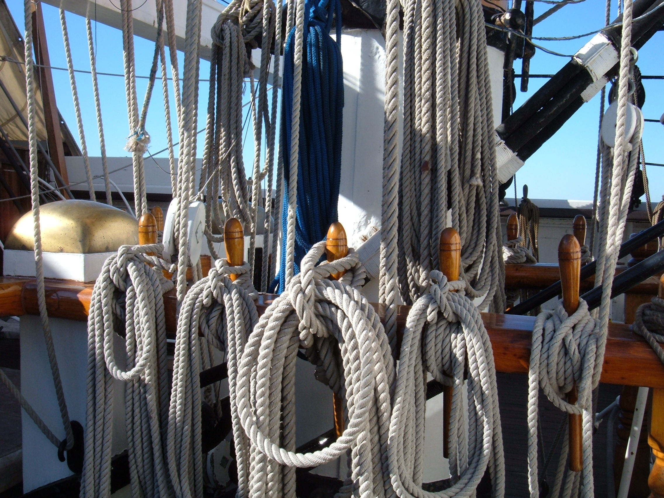 Rigging of the Star of India, part of the Maritime Museum of San Diego in San Diego, California.